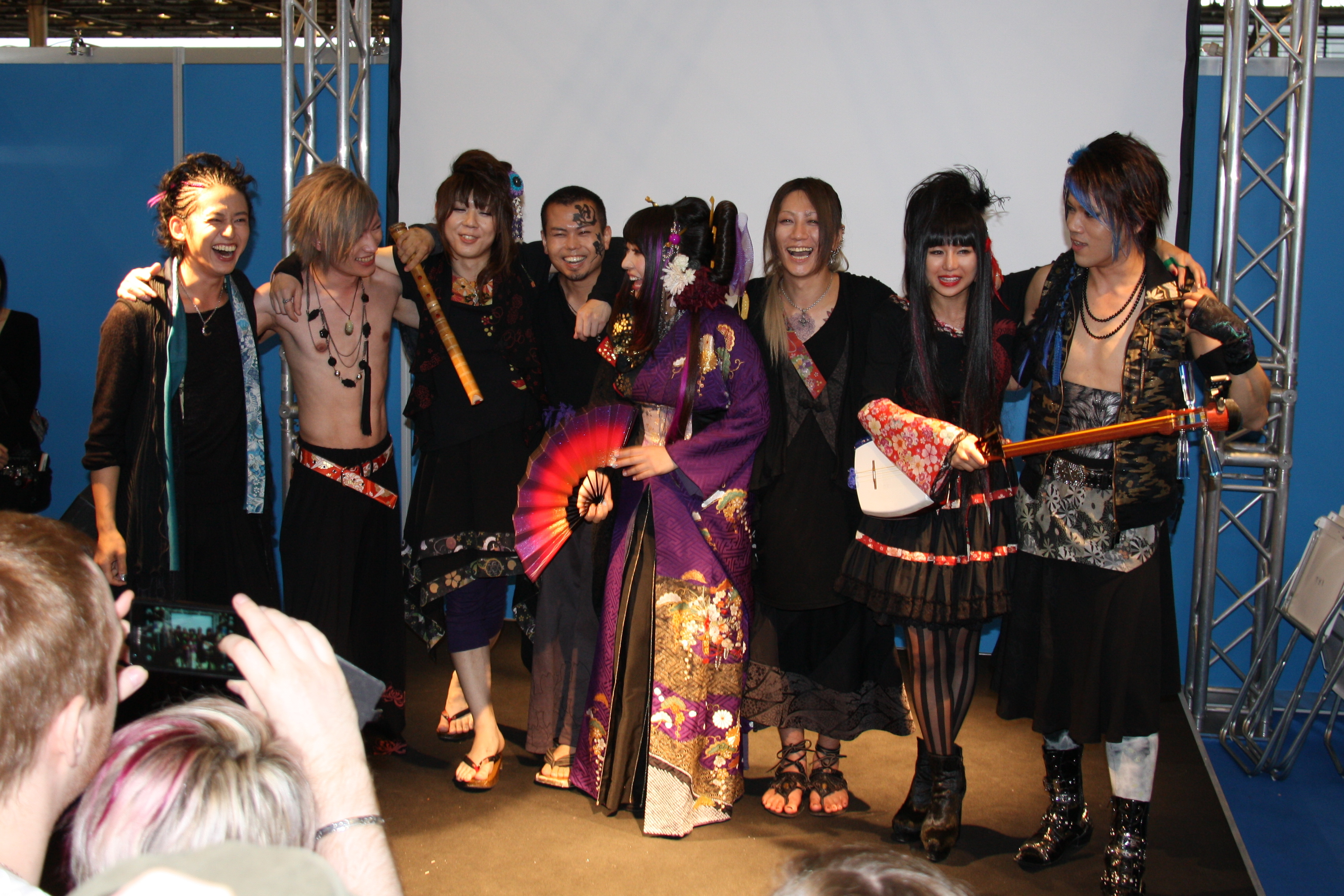 J-Rock band WagakkiBand at Japan Expo 15th impact, during a handshake event on SAIKO! Stage, on July, 6th 2014.